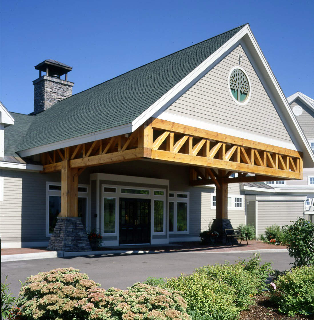 A large post and beam style Howe truss cantilevered well away from the main building.